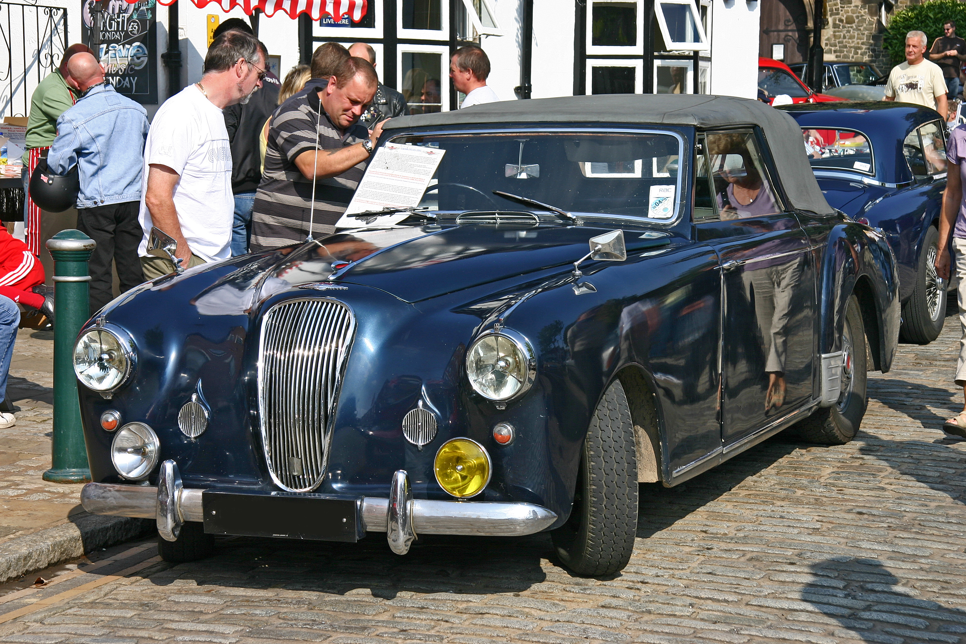 Lagonda 3-litre DHC. In 1953 the Lagonda 2.6litre was replaced by the 3litre available as a 4door saloon, or 2door coupe by Tickford. This Drophead Coupe was by Hermann Graber